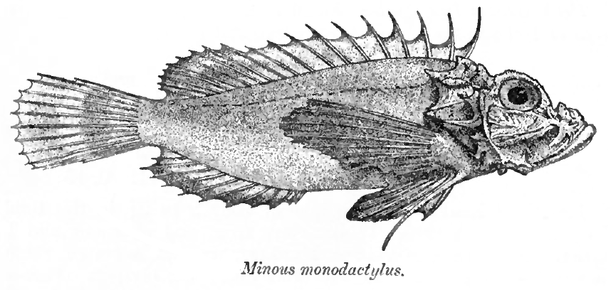 Minous monodactylus (Bloch & Schneider, 1801)